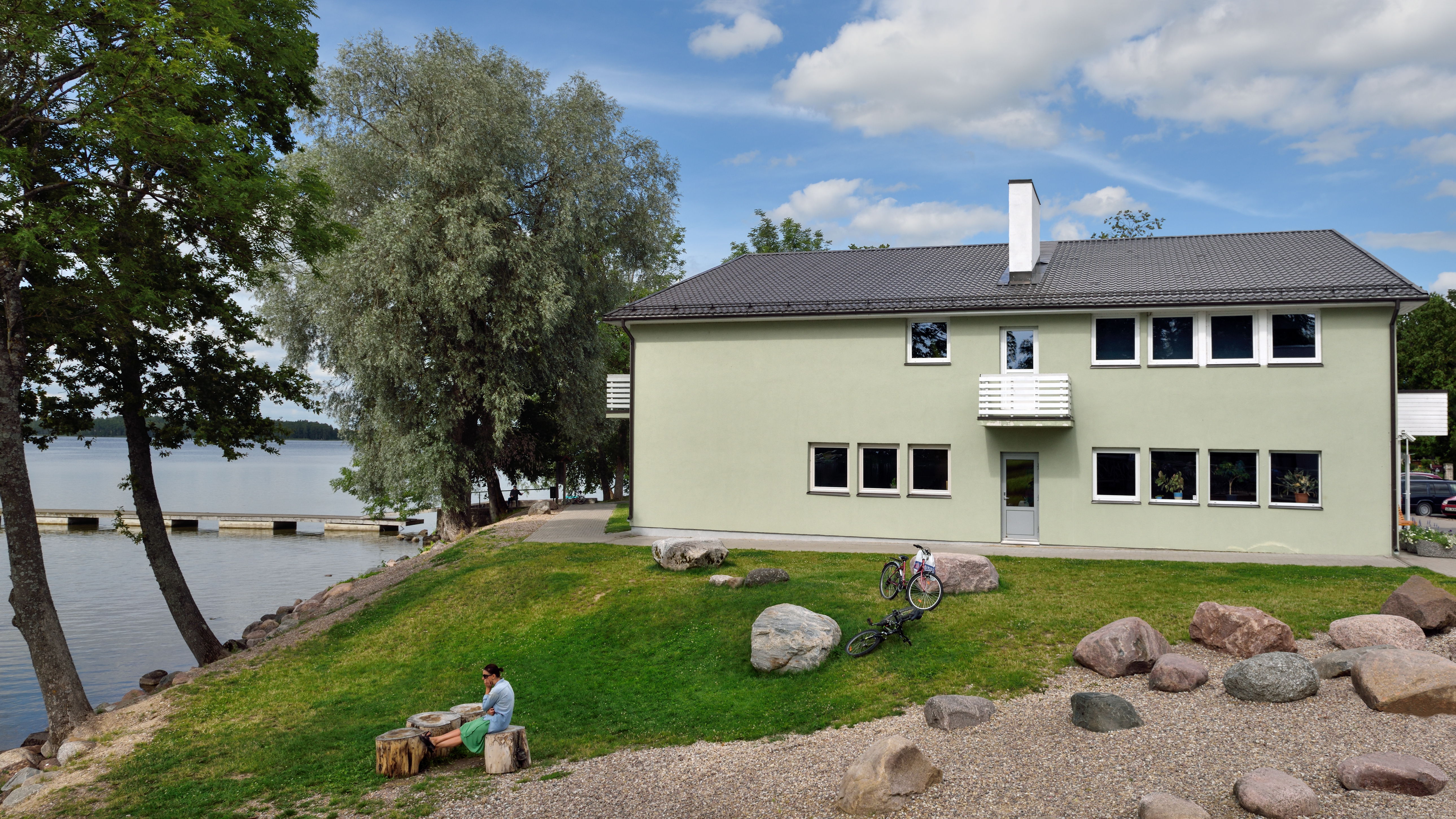 Äski, Estonia: Building on the shore of Lake Saadjärv, close to the Ice Age Centre (museum dedicated to the last glacial period).